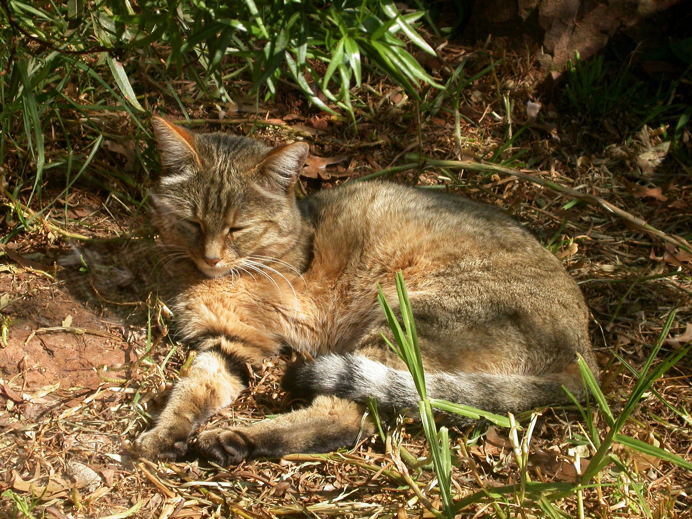 African Wild Cat, photographed by Sonelle, at the Johannesburg Zoo, South Africa.